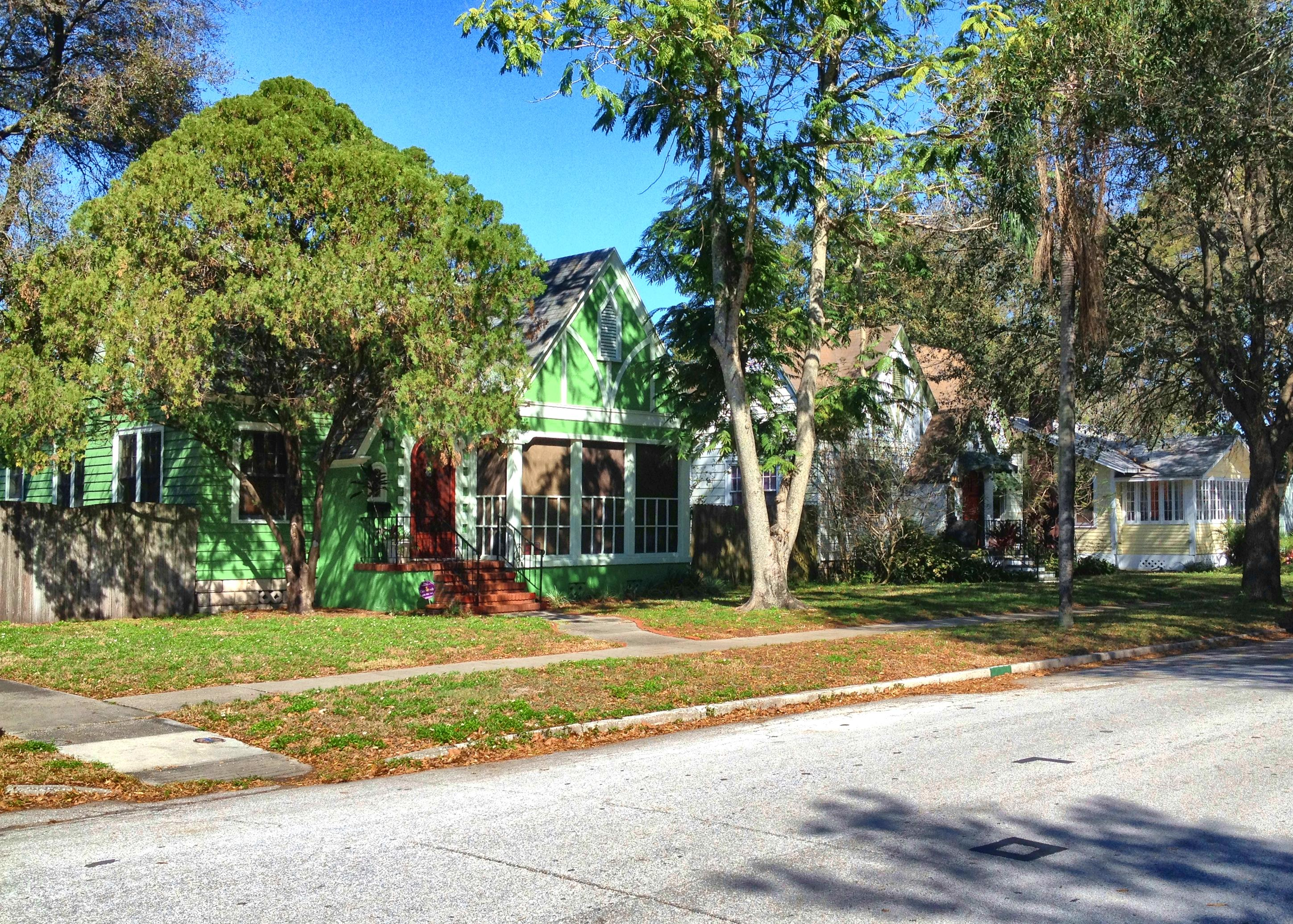 Historic homes in the Kenwood Historic District, St. Petersburg, Florida, taken in February 2014.